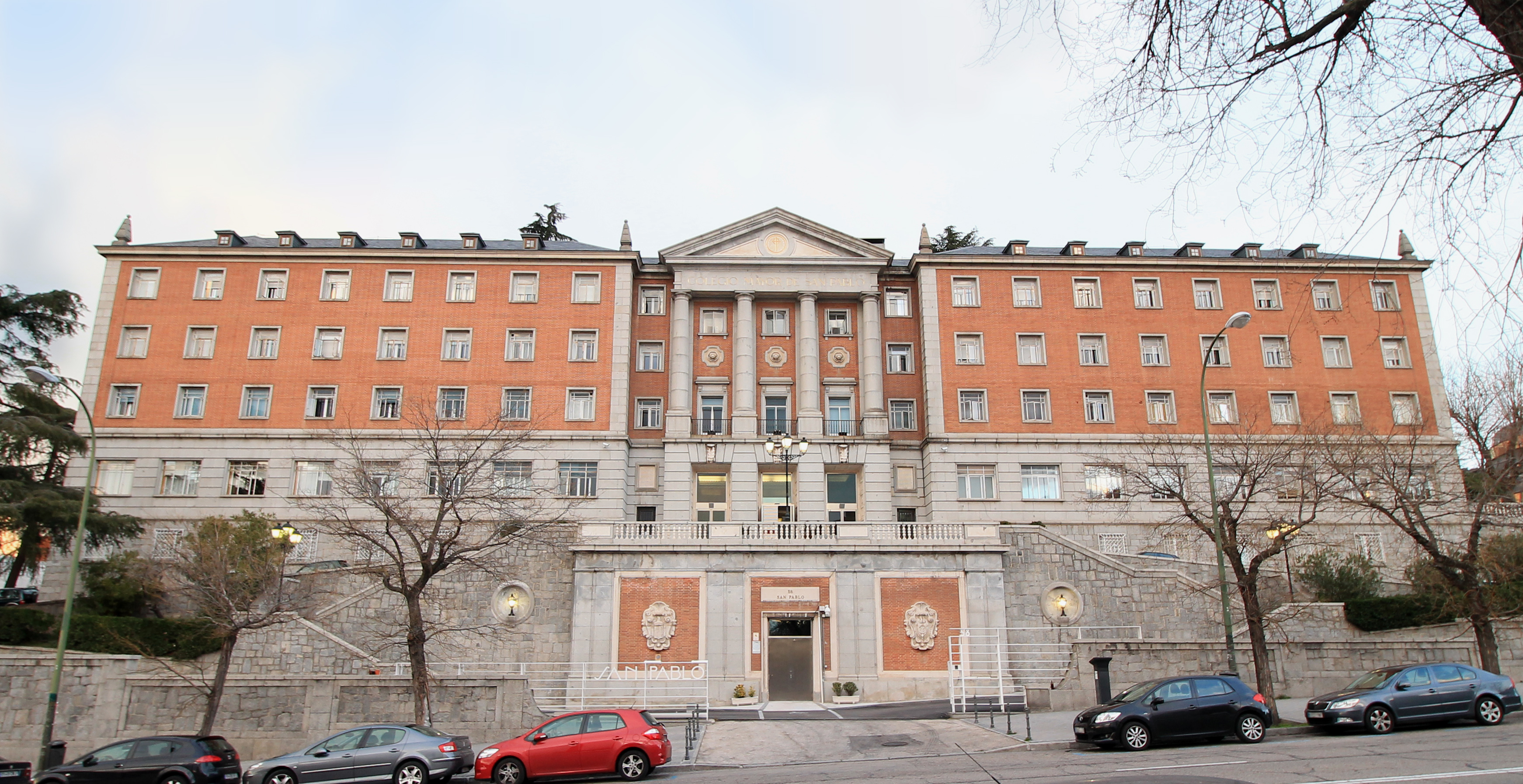 Façade of Colegio Mayor de San Pablo (a student residence) at 58 Calle de Isaac Peral (street) in Madrid (Spain). Building was designed in 1945 by architects José María de la Vega Samper and Luis García de la Rasilla Navarro-Reverter, and built from 1947 to 1950.